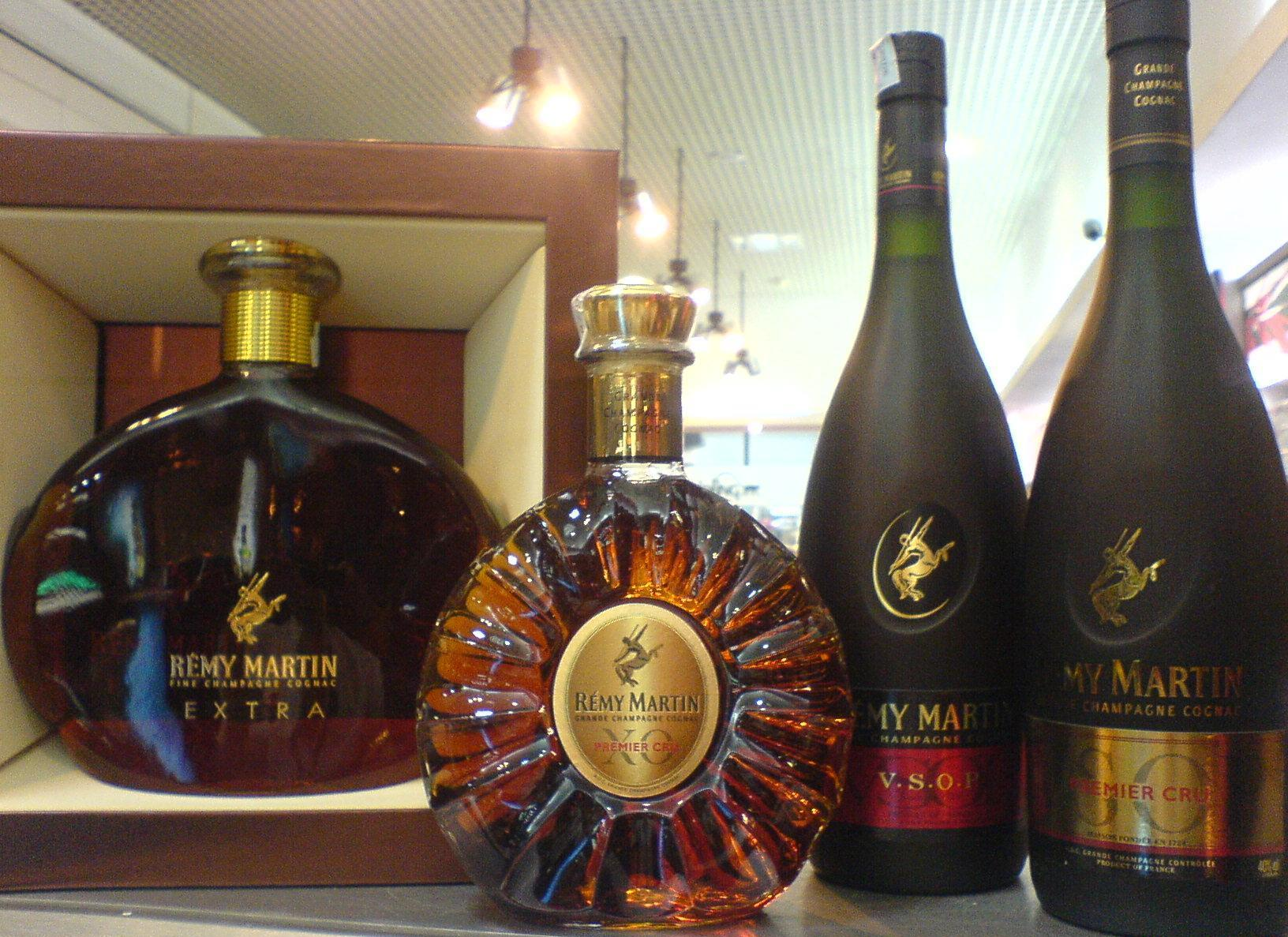 Rémy Martin at Noi Bai Airport Duty-free shop